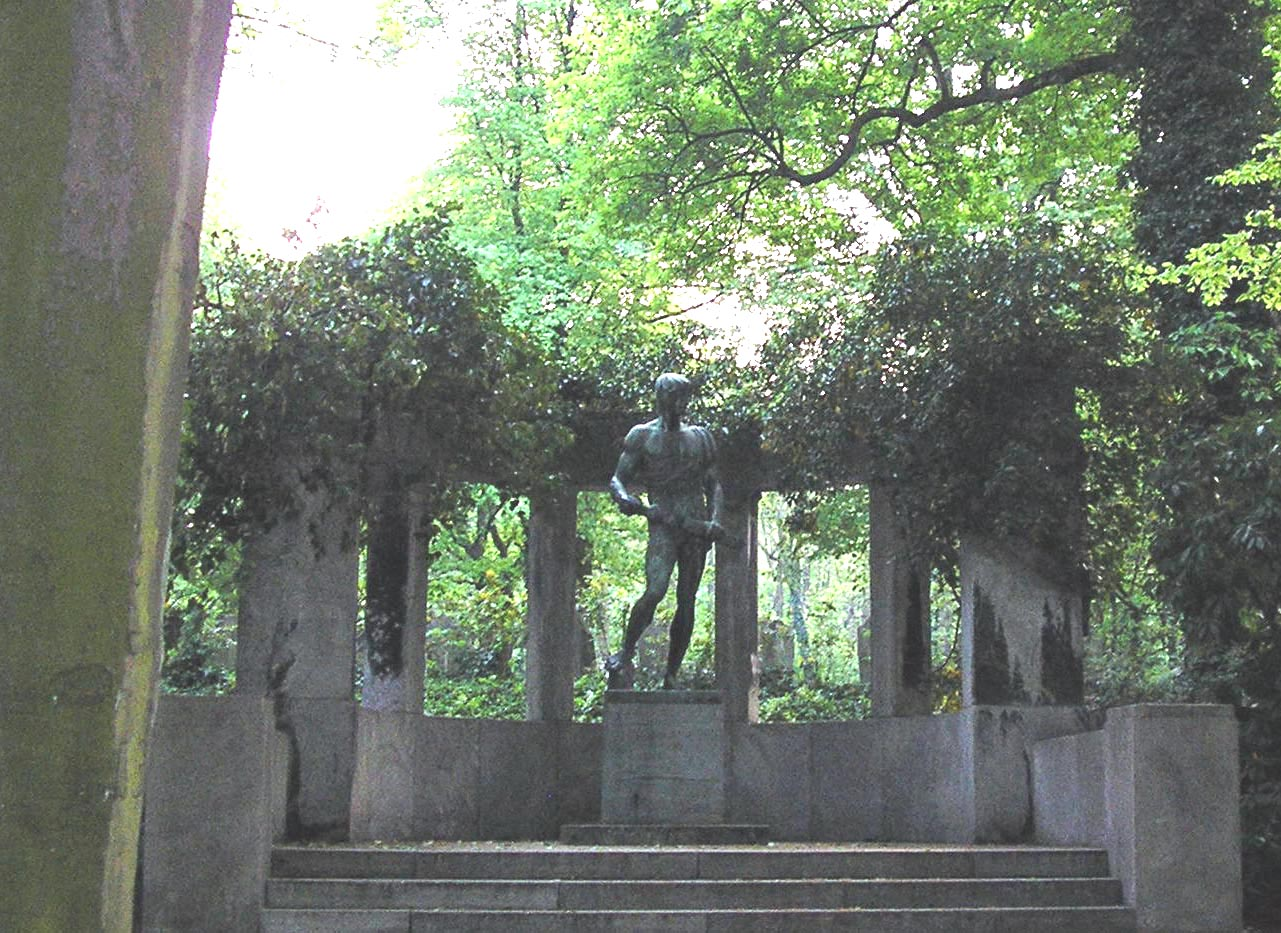 Soldiers cemetery at Kaiserberg, Duisburg, North Rhine-Westphalia, Germany